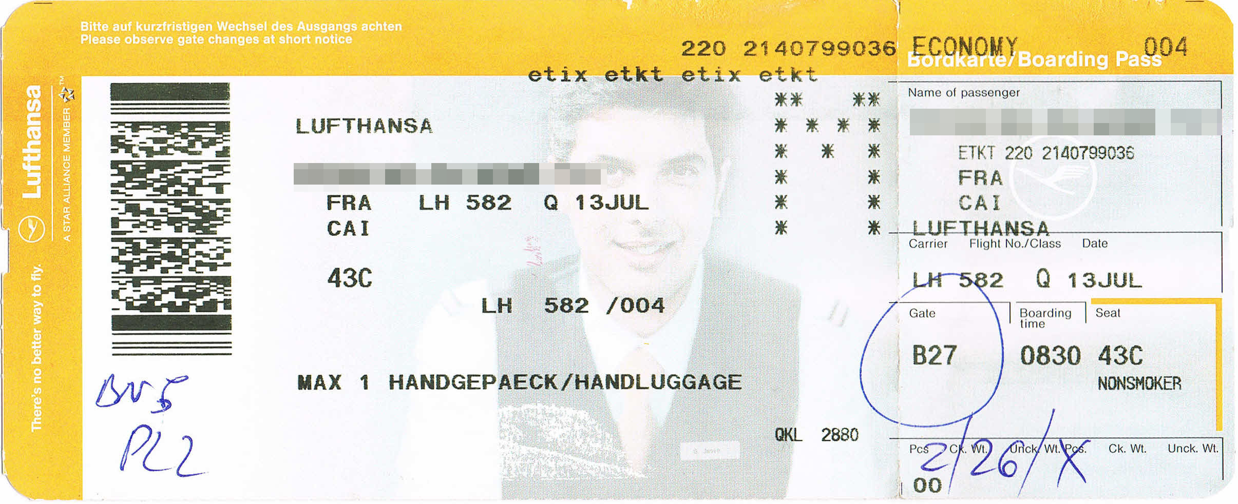 Lufthansa - boarding pass LH 582 Frankfurt-Cairo